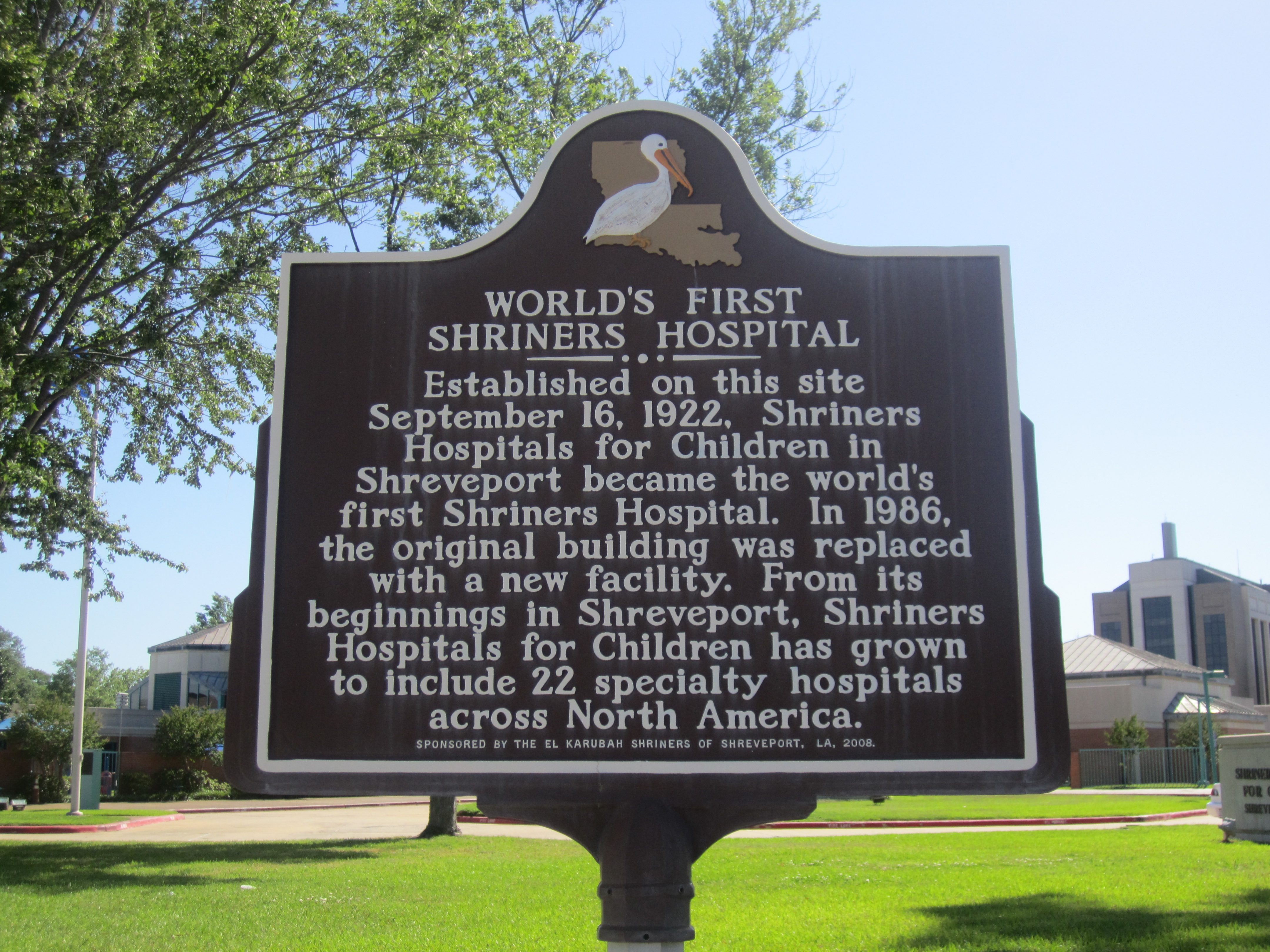 I took photo of Shriner's Hospital historical marker in Shreveport, LA, with Canon camera.